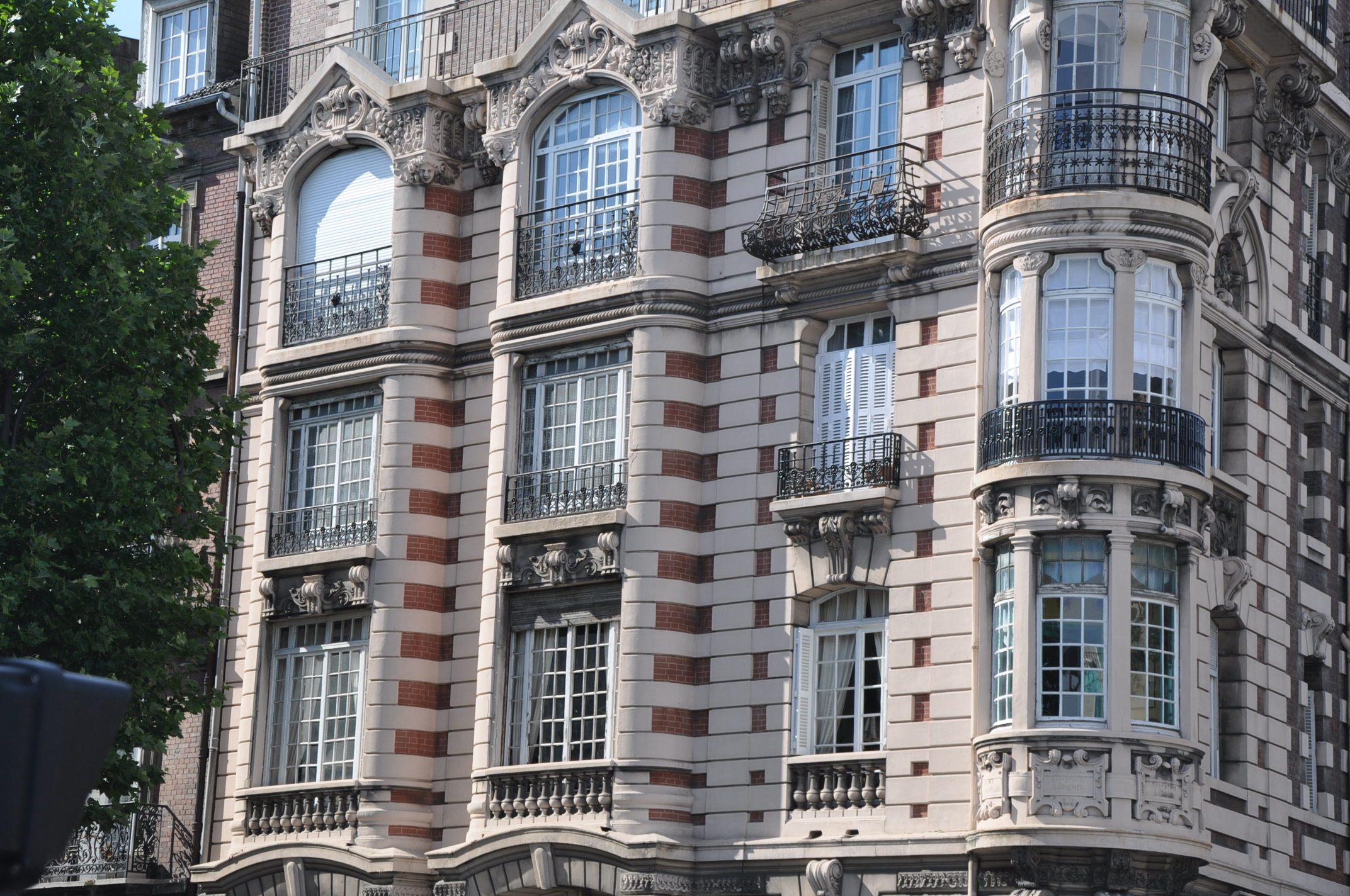 Le Havre (France, Normandy) : building of 1900.